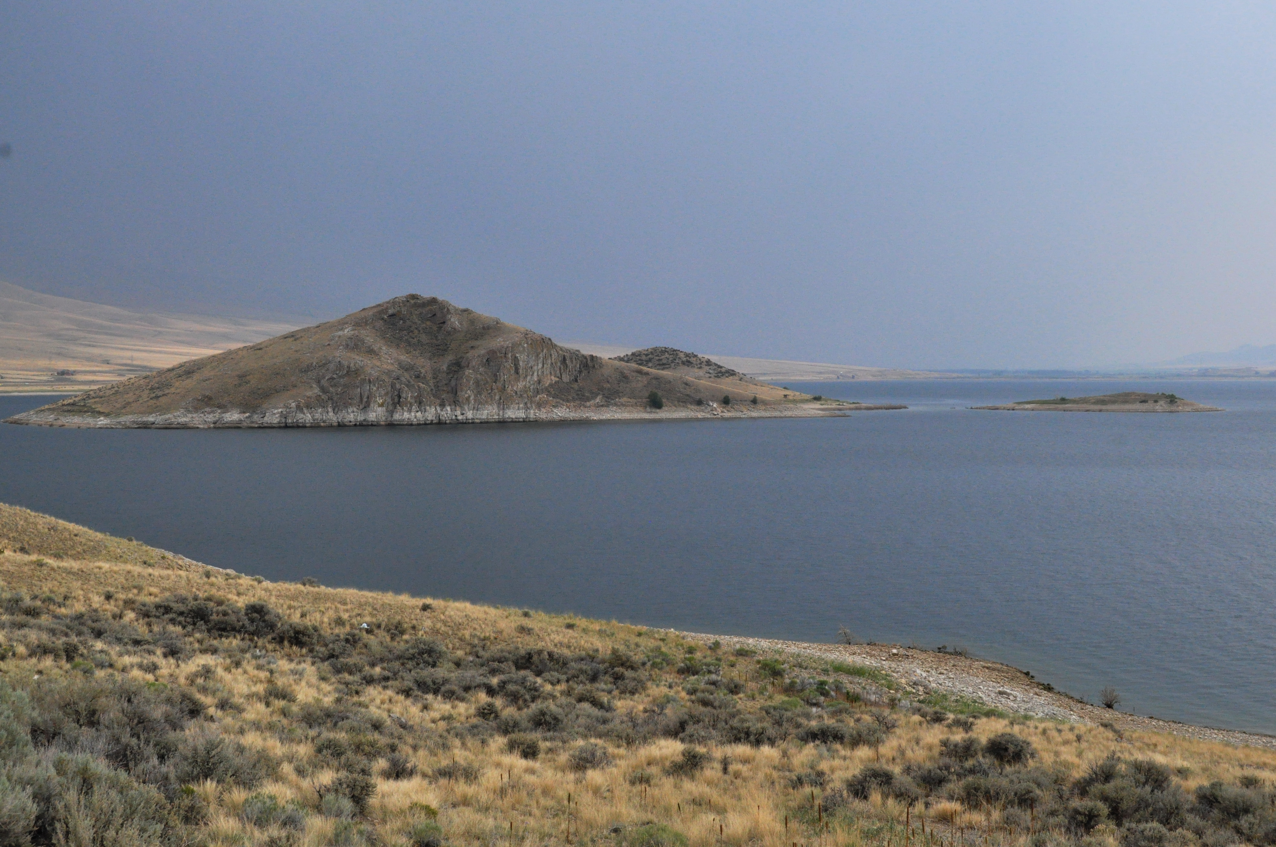 Along the Nez Perce National Historic Trail, Clark Canyon Reservoir south of Dillon, MT. US Forest Service photo, by Roger Peterson